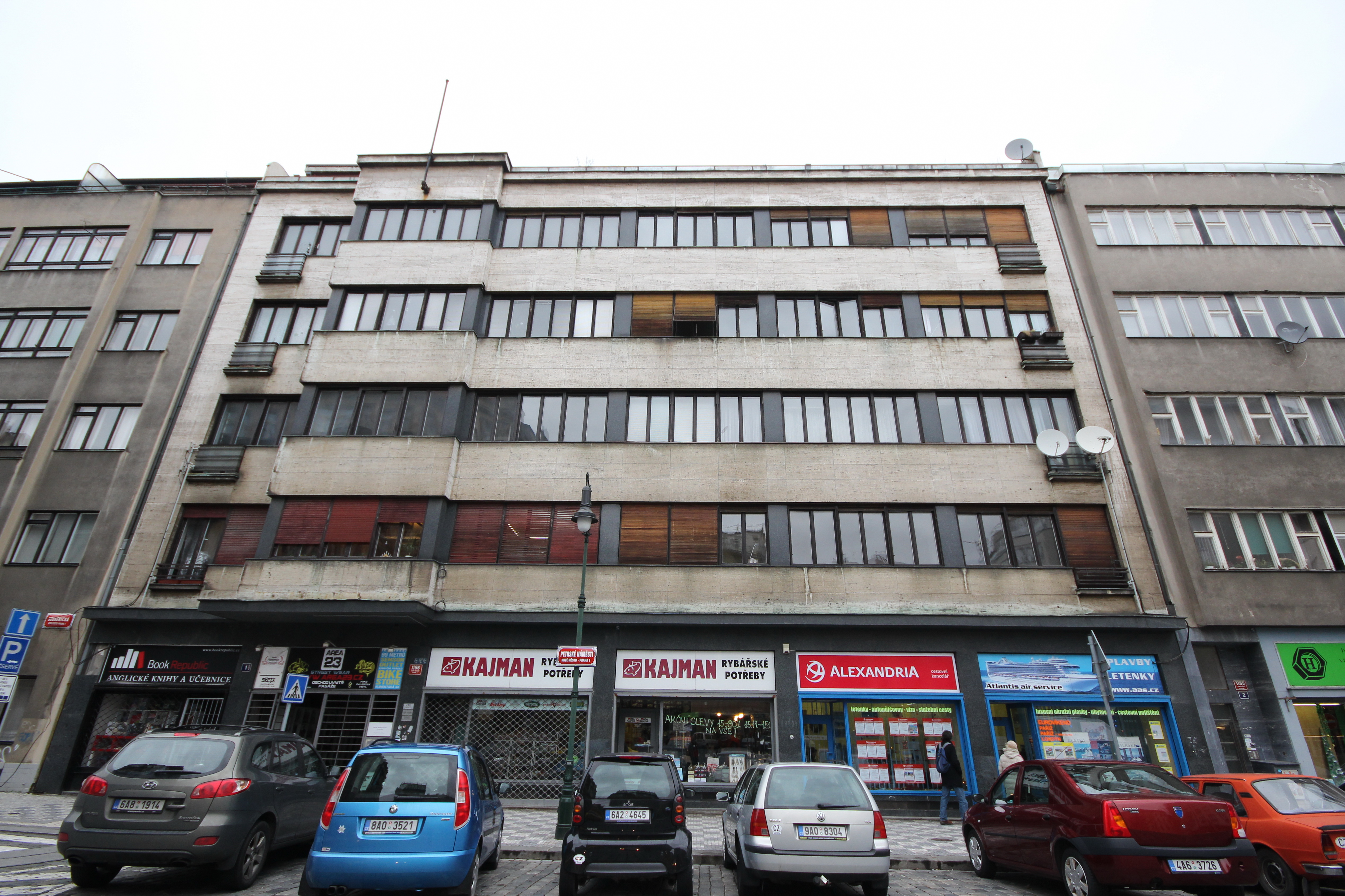 Otto Zucker: Rental house No. 1186, Praha 1-Nové Město, Peterské náměstí 1, 1938-1941.